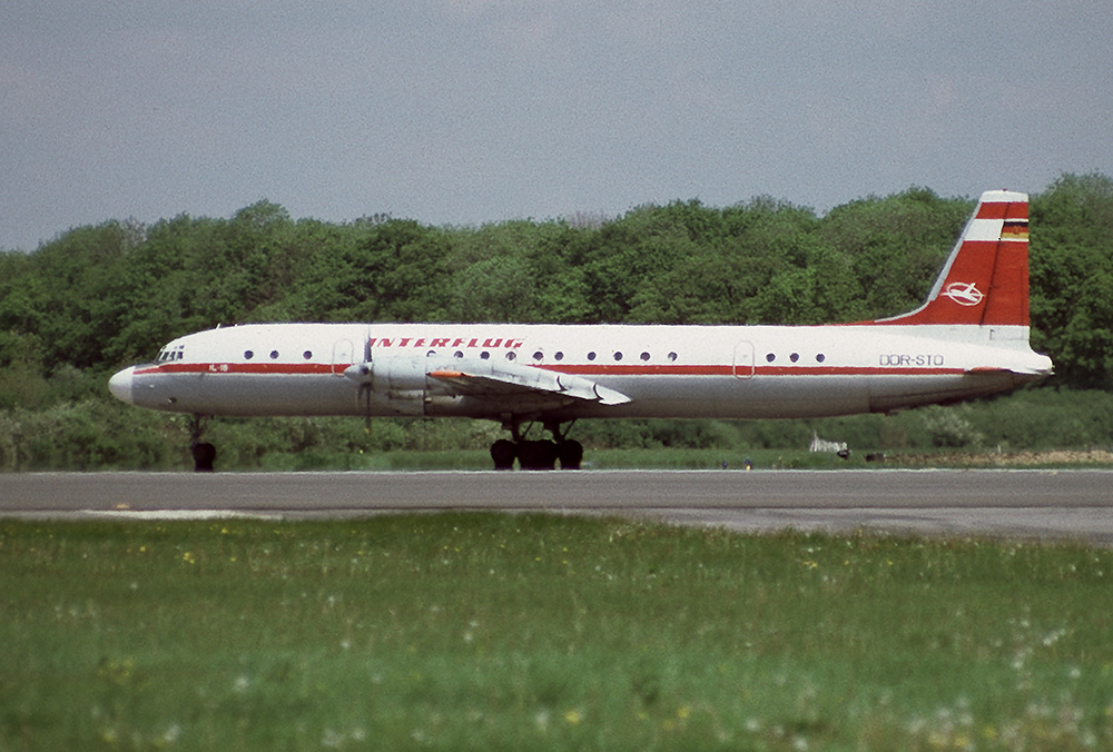 DDR-STO Ilyushin Il-18 on Summer Charter to Gatwick mid 1985